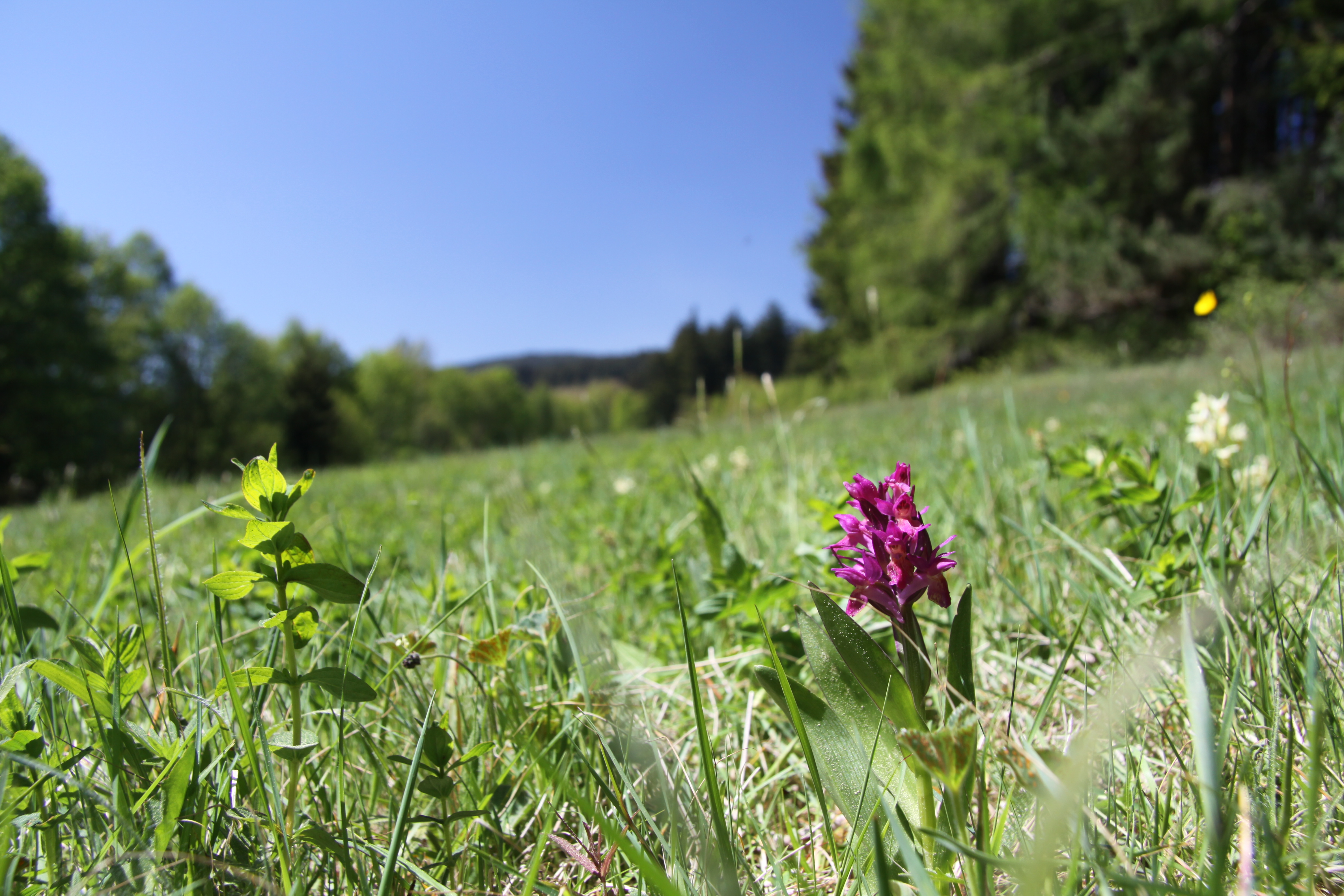 Dactylorhiza sambucina. Natural reserve Nad Zavírkou near Stachy village in Prachatice District, Czech Republic - Google Maps - Google Earth